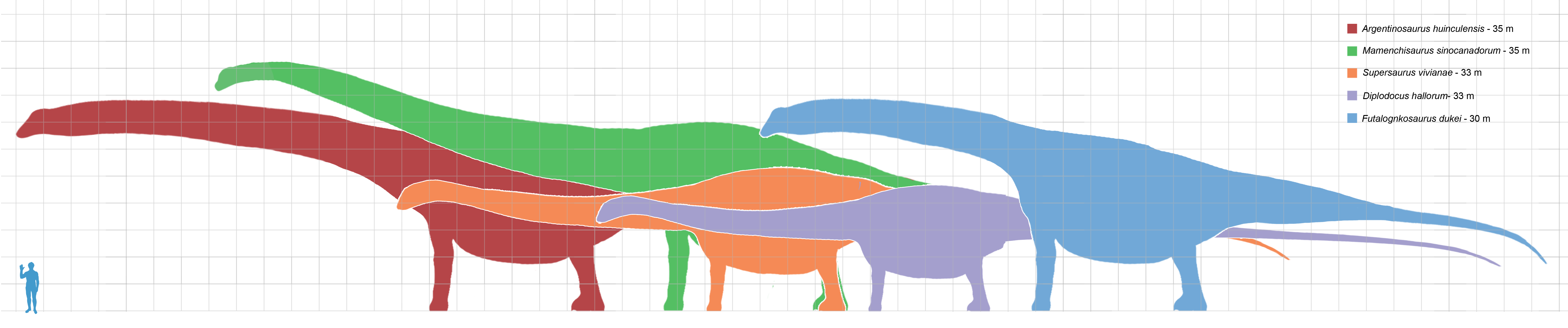 Scale chart comparing the sizes of several of the longest known dinosaurs.